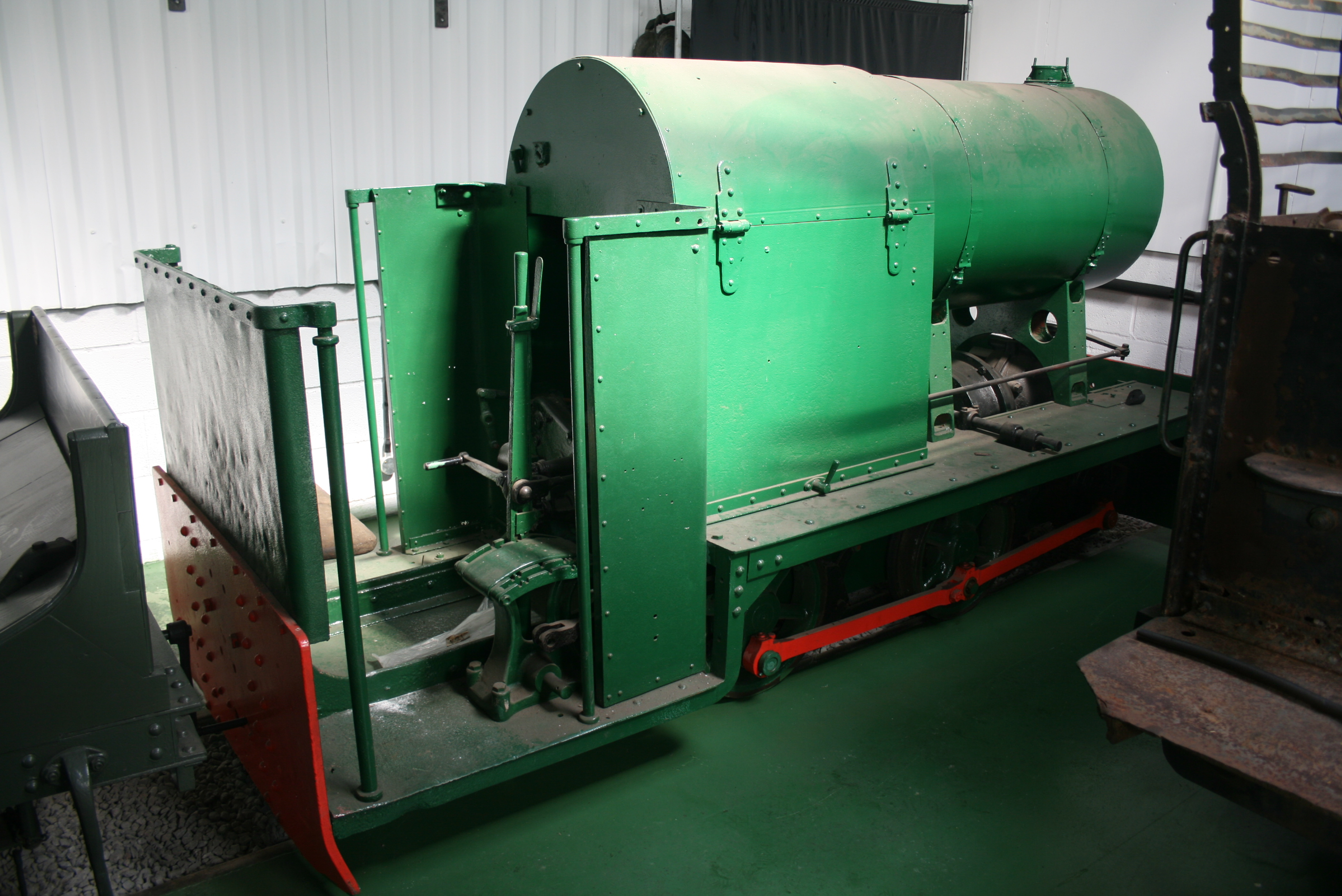 2ft (60 cm) gauge petrol locomotive by Baguley, works no. 774 of 1919, previously at slate quarry near Machynlleth, at Statfold Barn Railway, England